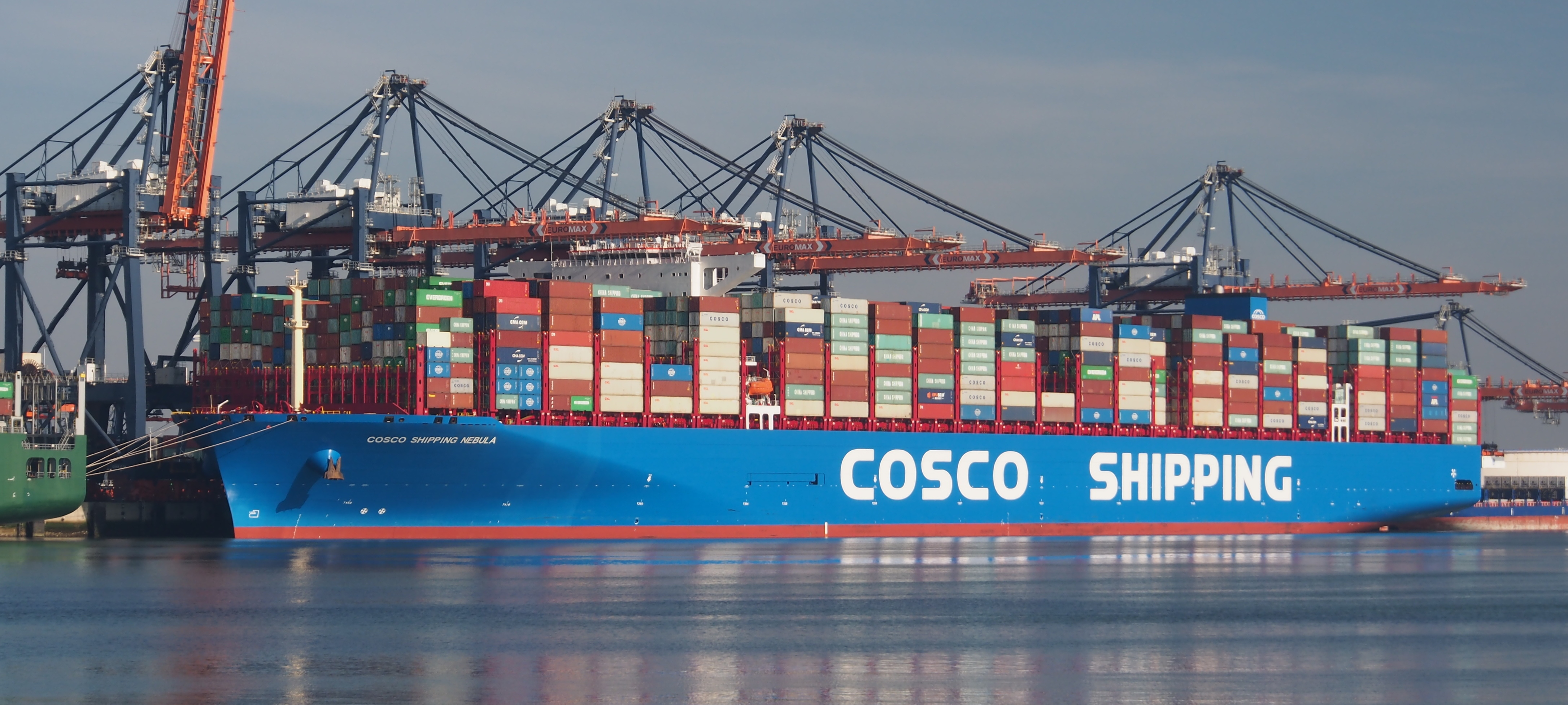 Photographed at Port of Rotterdam.